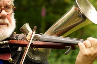 Willem Wolthuis plays for Romanesca the Strohfidel